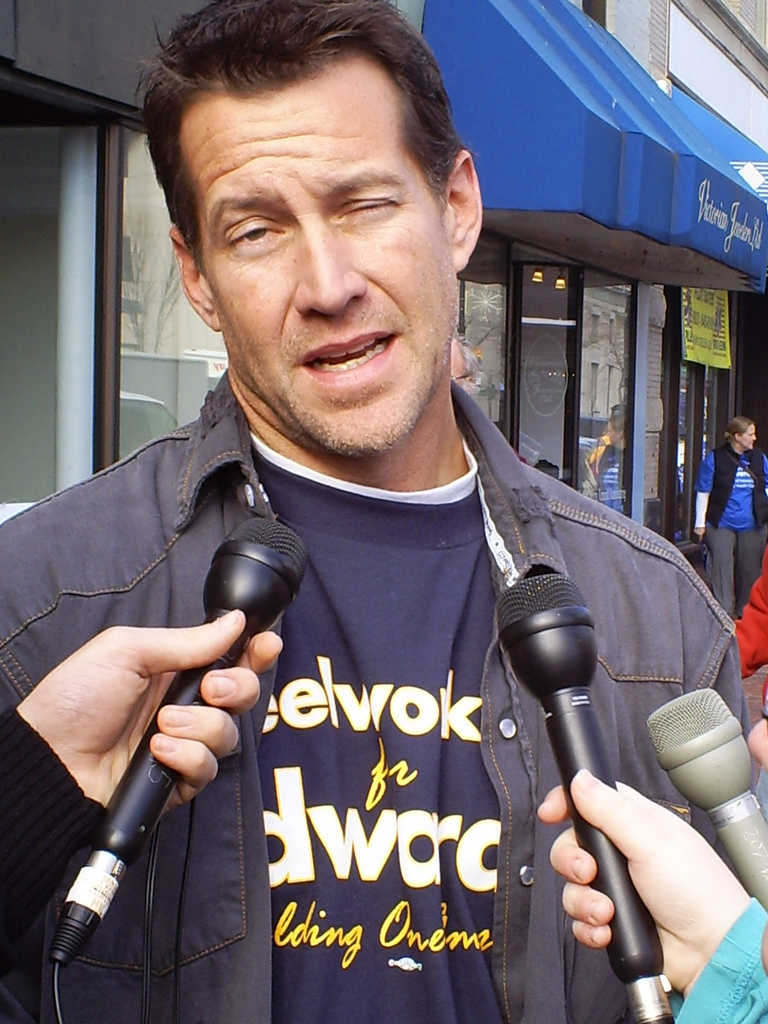 Actor James Denton